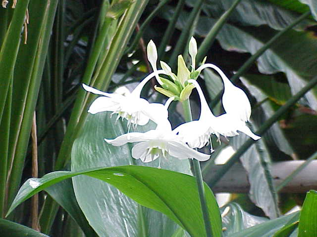 Species: Eucharis grandiflora Family: Amaryllidaceae Image No. 3